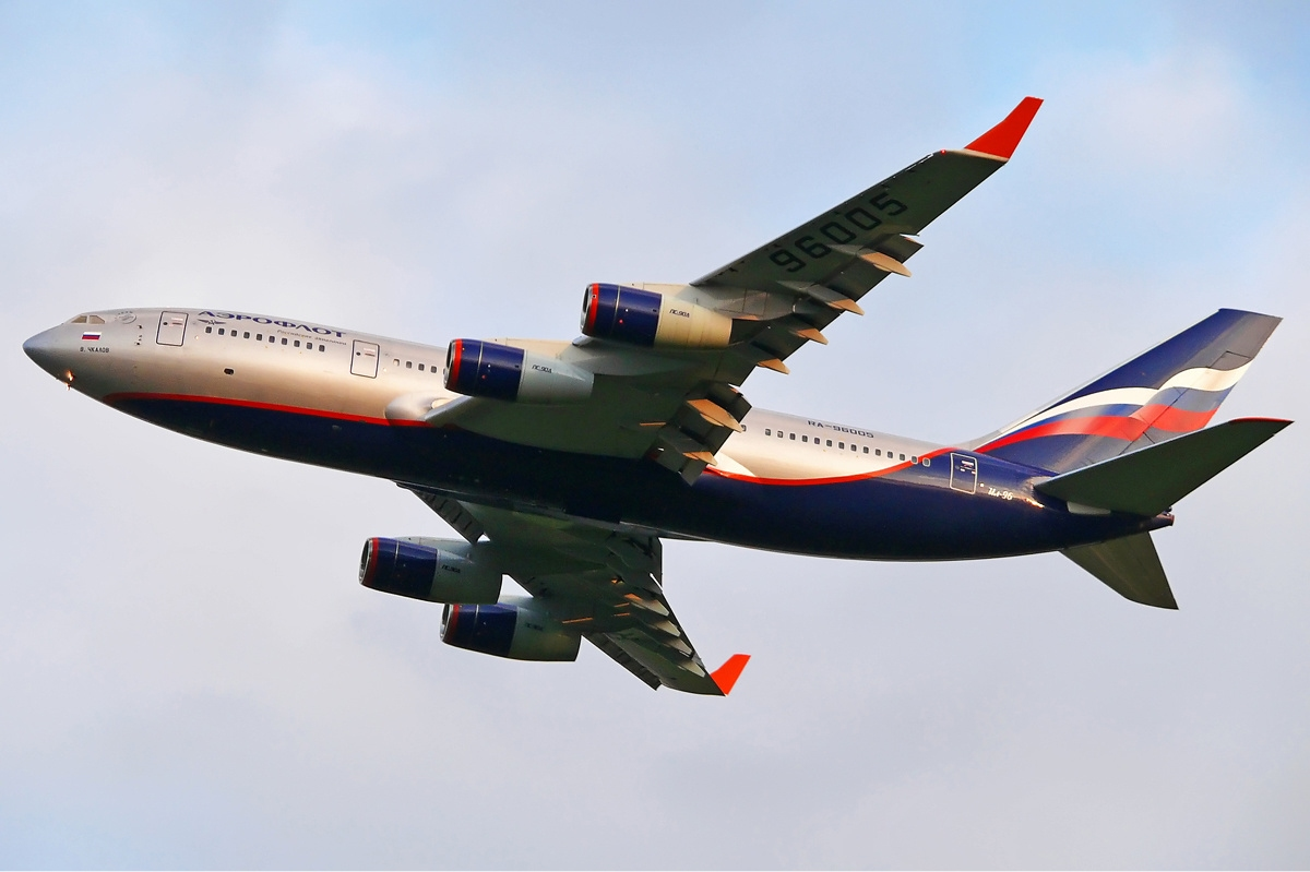 Aeroflot Ilyushin Il-96-300 RA-96005. Departing from Moscow - Sheremetyevo (SVO / UUEE)